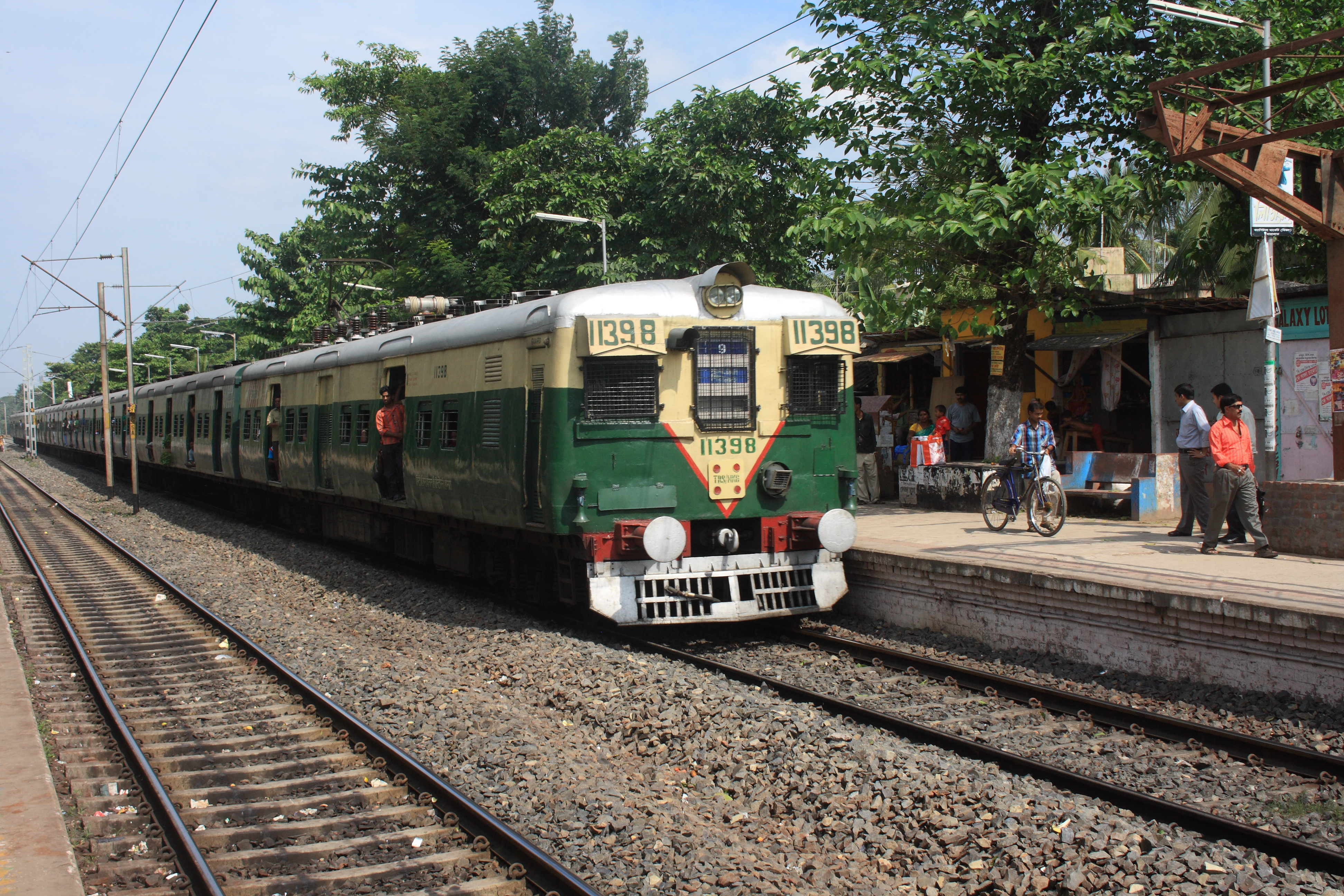 A Kolkata local train at Hridaypur station en route from Barasat Junction to Sealdah.